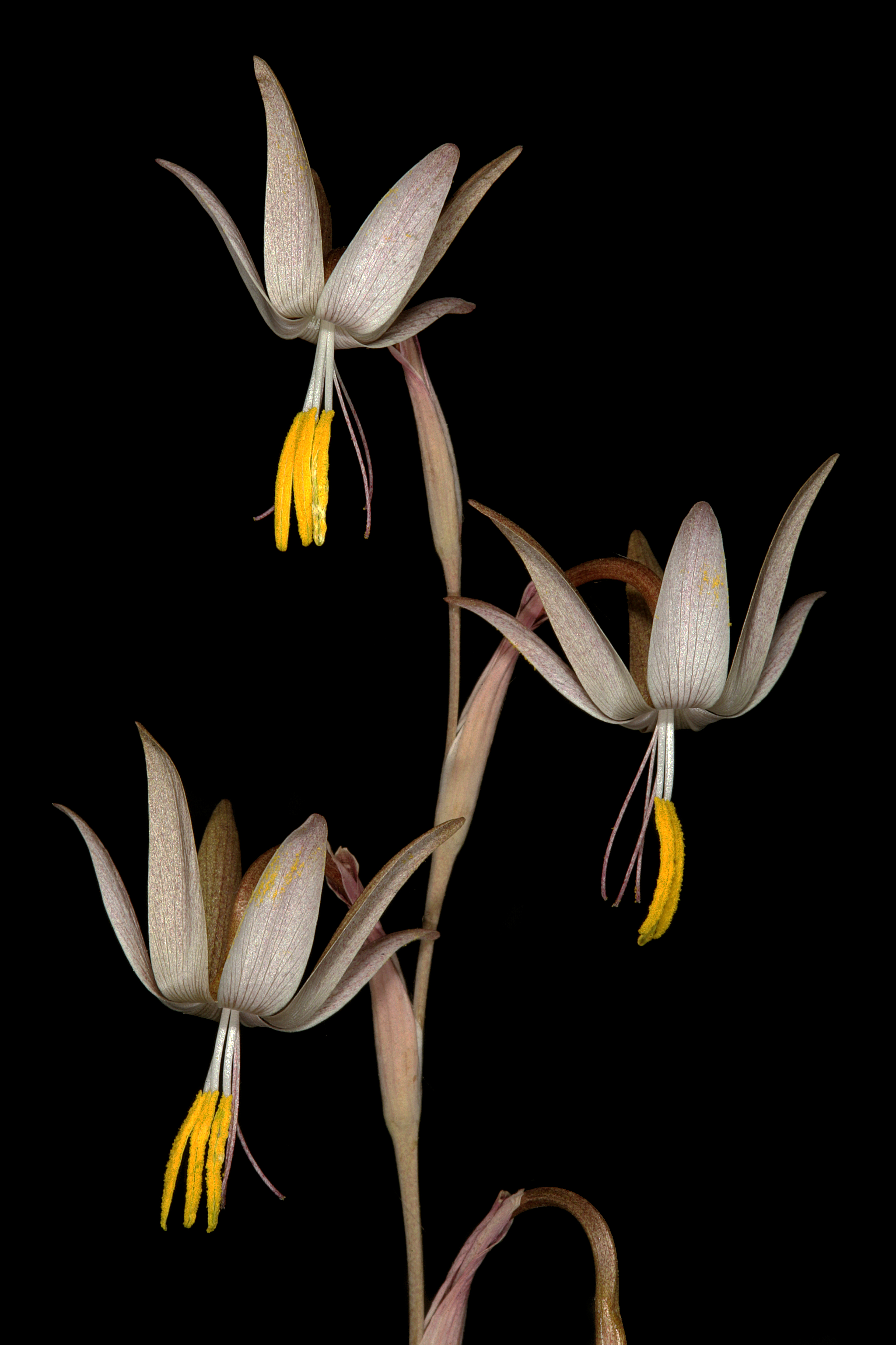 Hesperantha longicollis, inflorescence; flowers open after sunset. Recently burned grassland (area since destroyed by urban expansion), Fourways Gardens, Johannesburg, Gauteng, South Africa